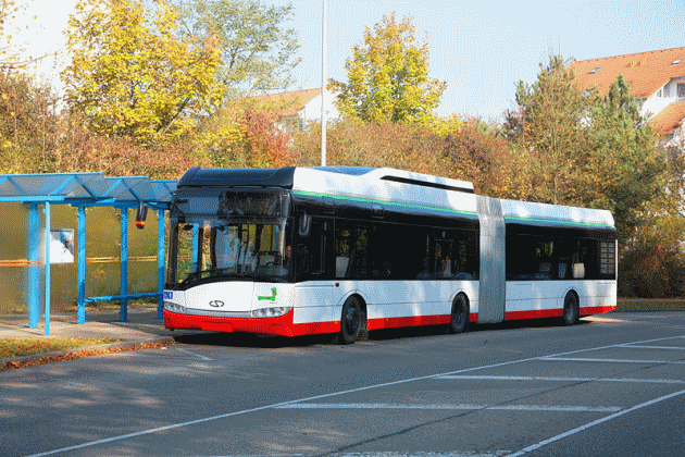 Eric Loveday